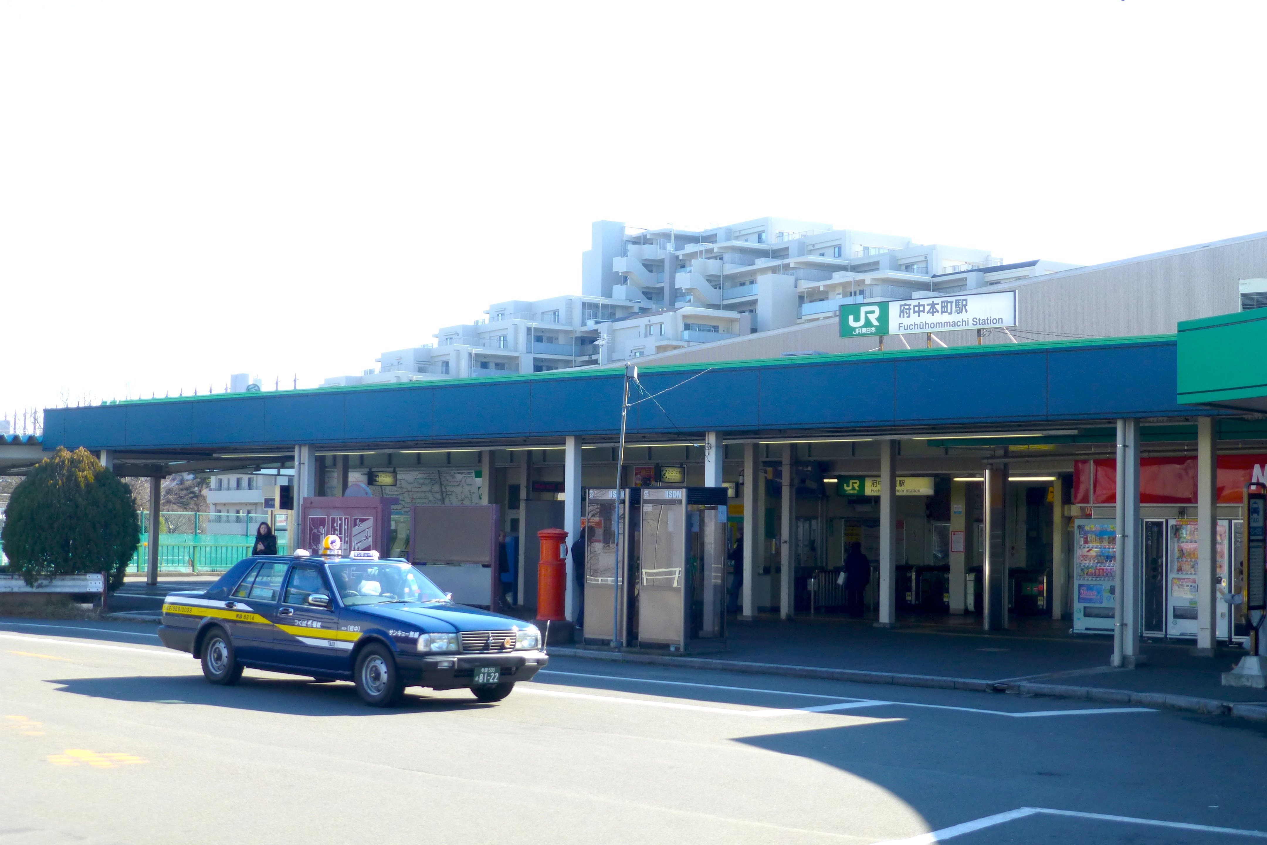 Fuchū-Hommachi Station entrance and forecourt